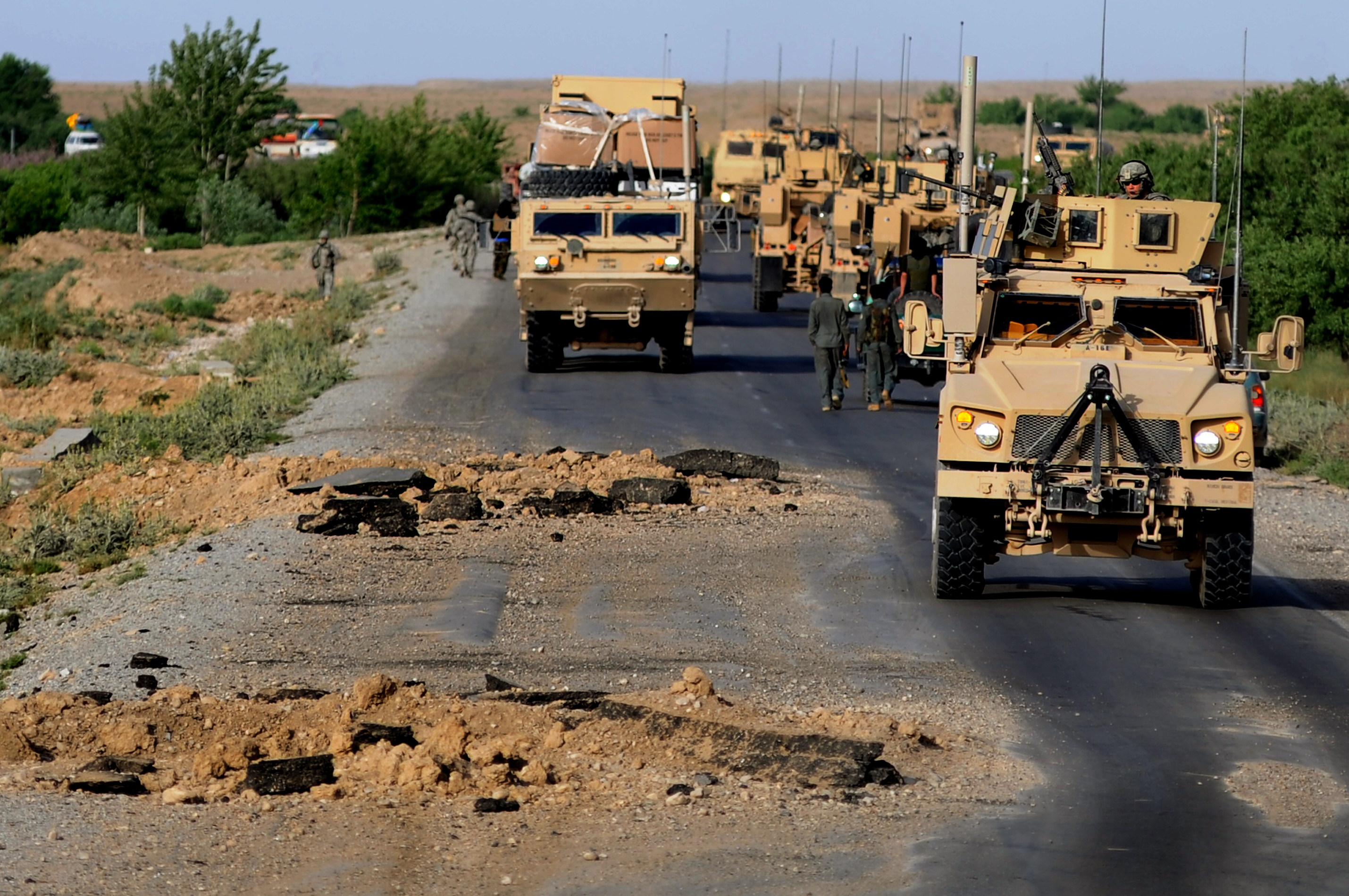 U.S. Army members with 782nd Alpha Company make their way around gigantic improvised explosive device blast holes that were created just a few hours prior to their convoy passing through April 30, Southern Afghanistan. The U.S. Army convoy just ahead of the 782nd suffered one casualty from the IED blast and several wounded Soldiers. IED's are amongst the top threat to U.S. and Coalition forces serving in Afghanistan right now. See more at